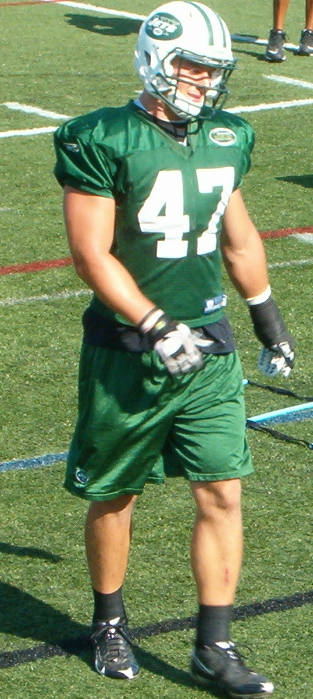 Brandon Renkart during practice